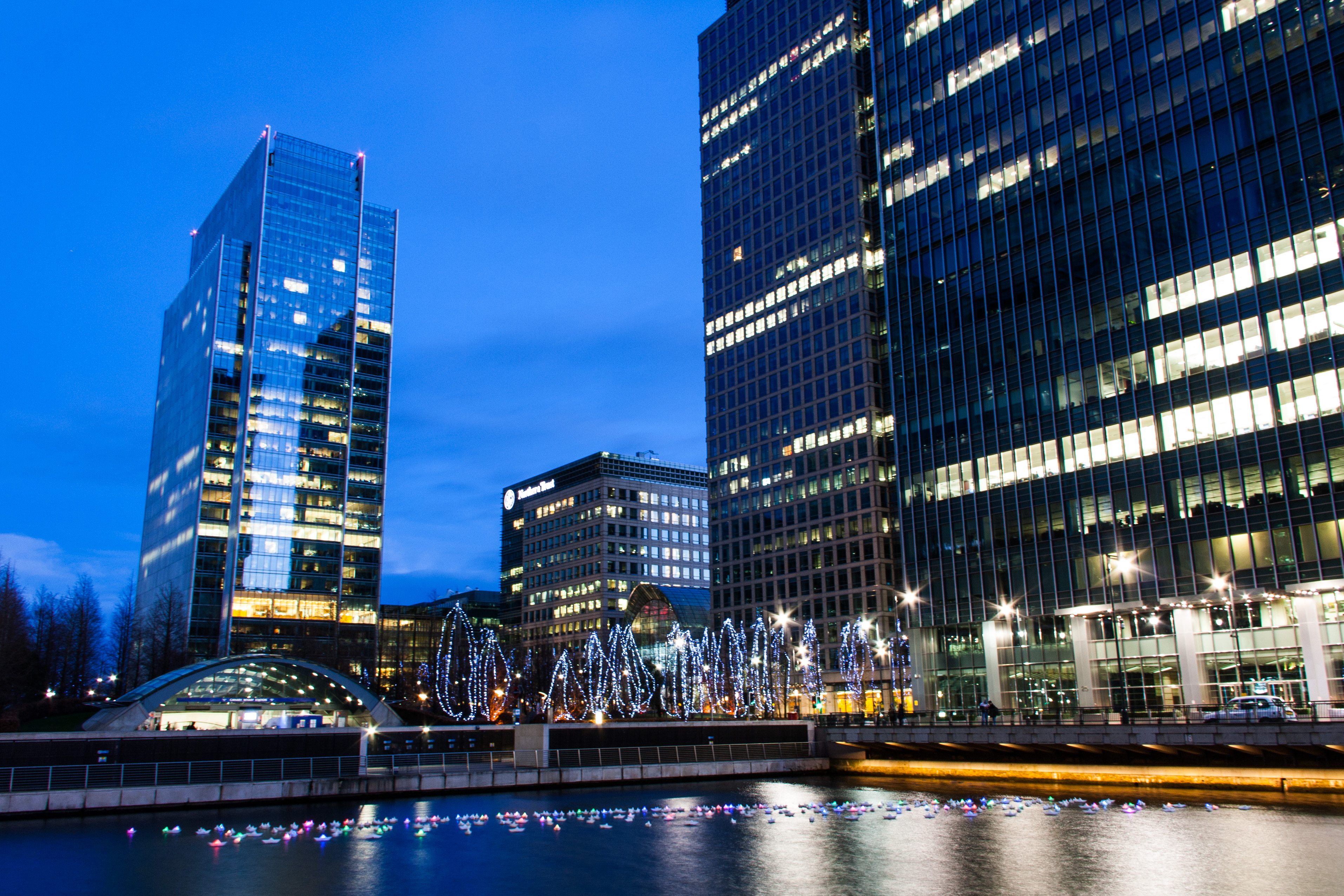 Heron Quays Looking South East From Canary Wharf